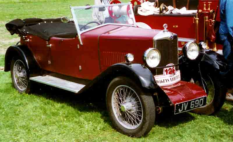 Riley Nine Tourer 1930(DVLA) manufactured 1930, 1087cc